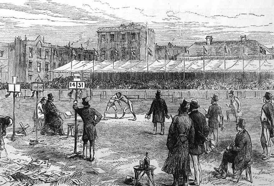 A group of men watching Cumberland and Westmoreland wresting at the Lillie Bridge Ground on Good Friday, in London.